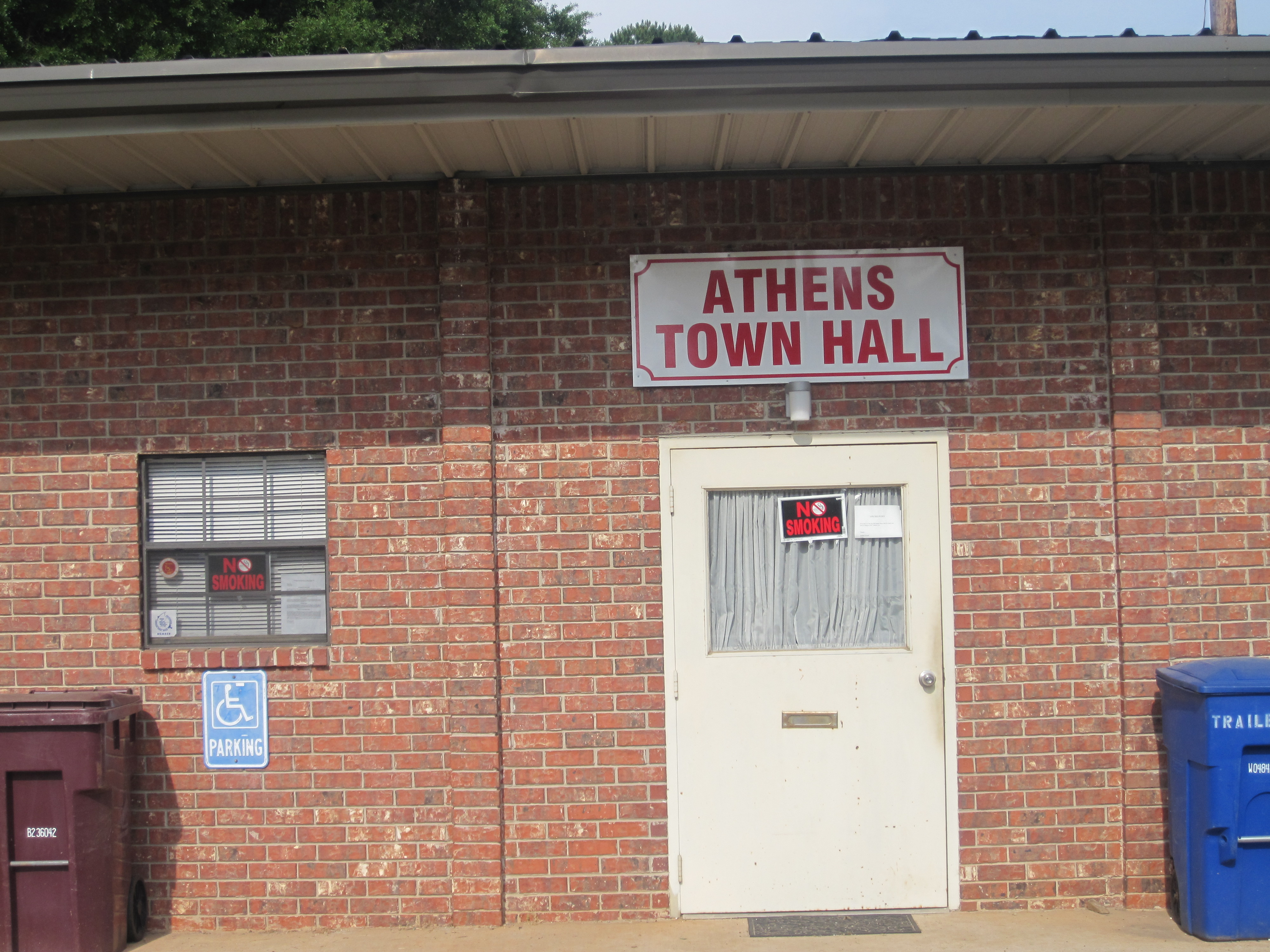 I took photo with Canon camera.